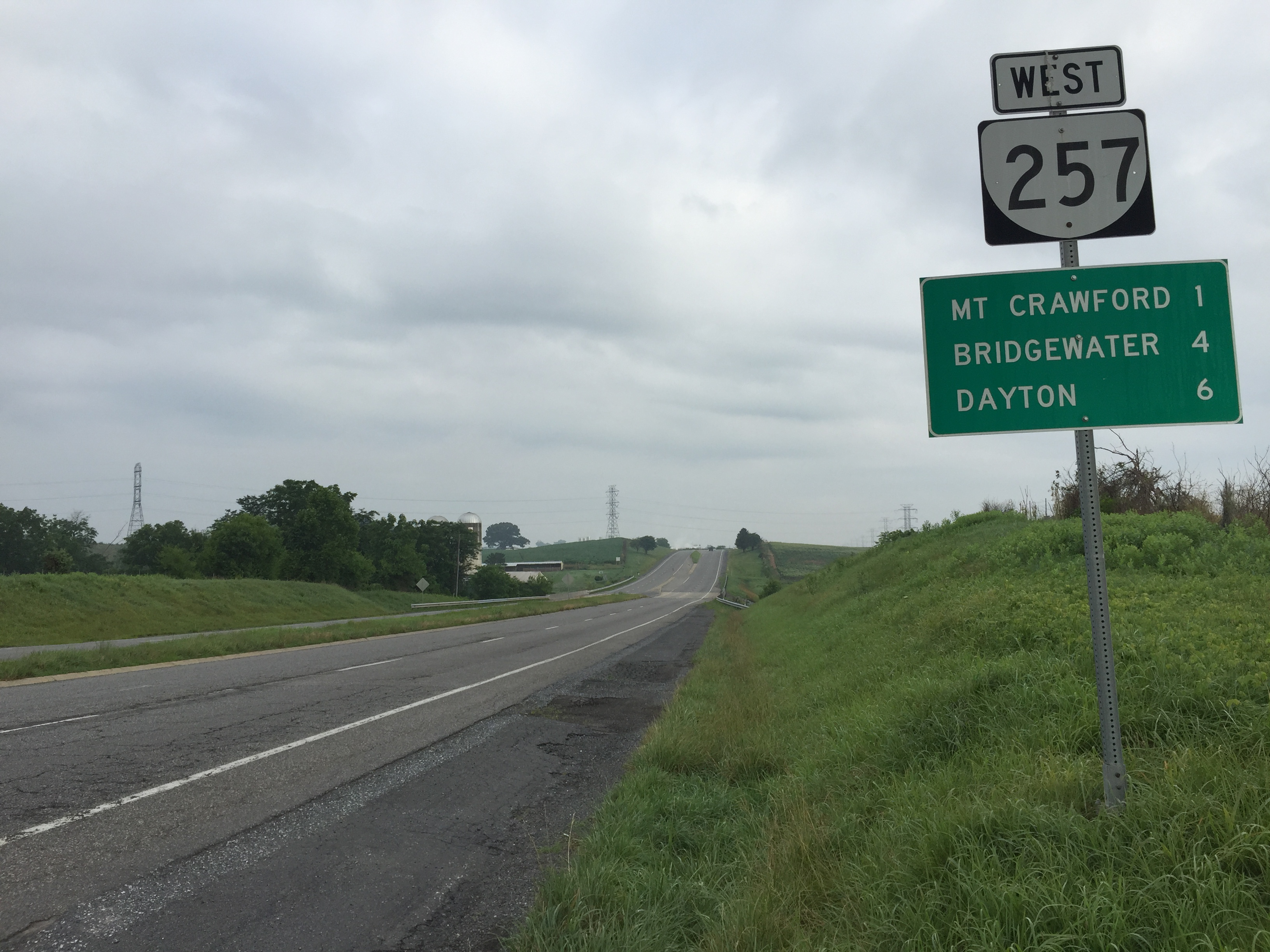 View west along Virginia State Route 257 (Friedens Church Road) just west of Interstate 81 near Mount Crawford in Rockingham County, Virginia